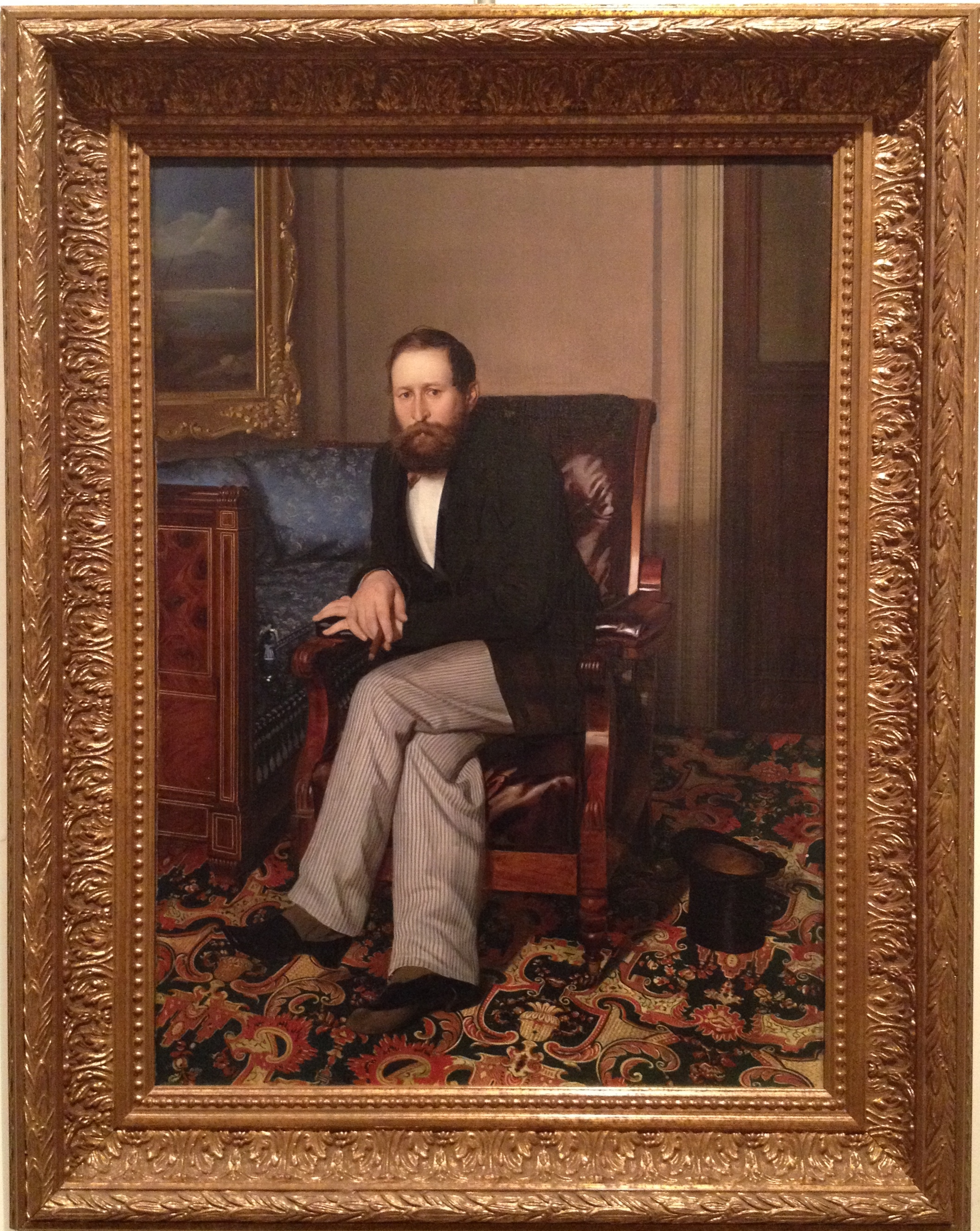 Portrait of Vespasiano Muzzarelli (1846), Pompeo Marino Molmenti